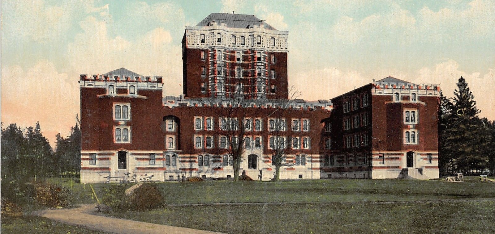 Jewett House (then North Hall) at Vassar College in the town of Poughkeepsie, New York.